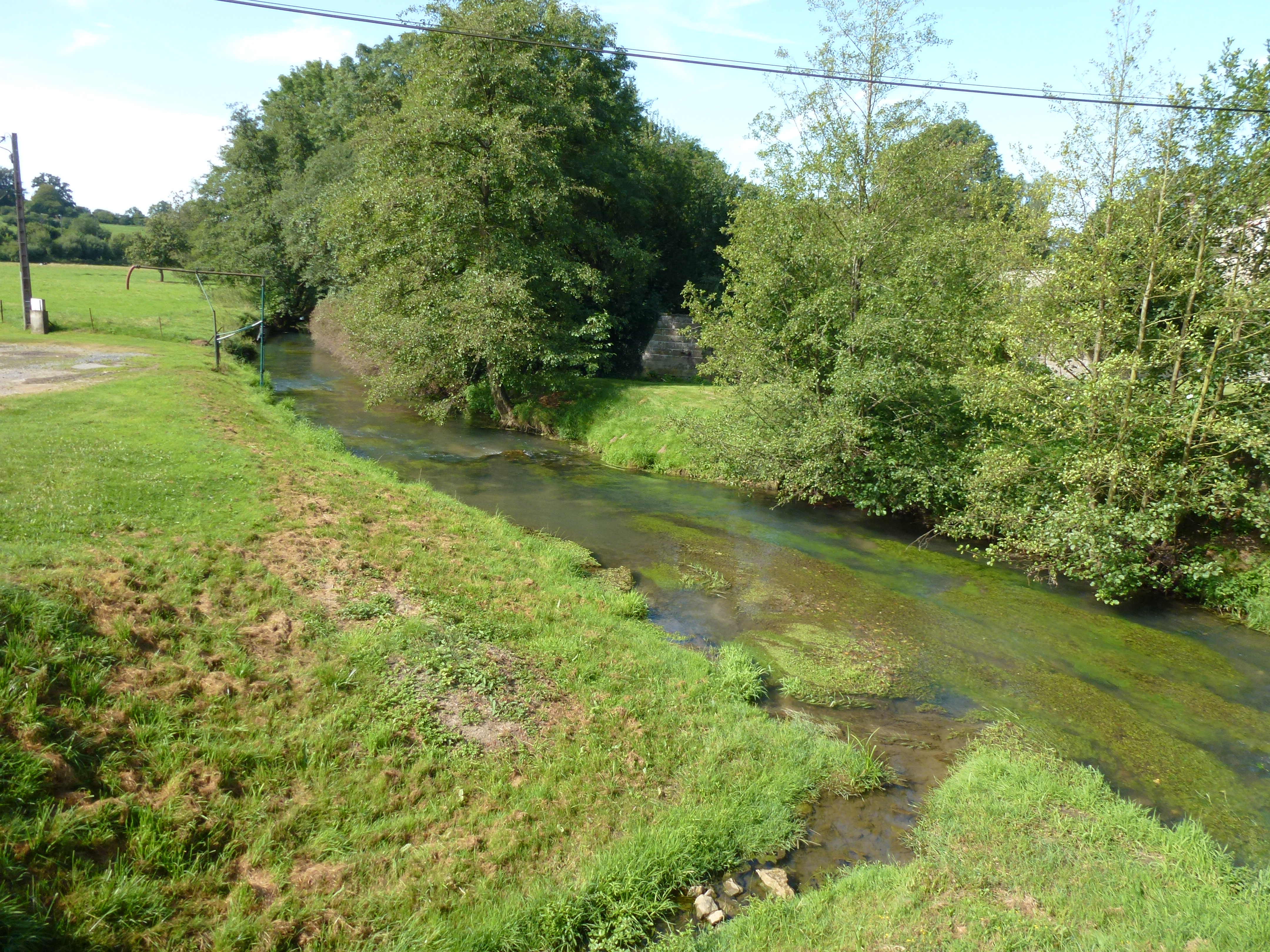 Rumigny (Ardennes) la rivière